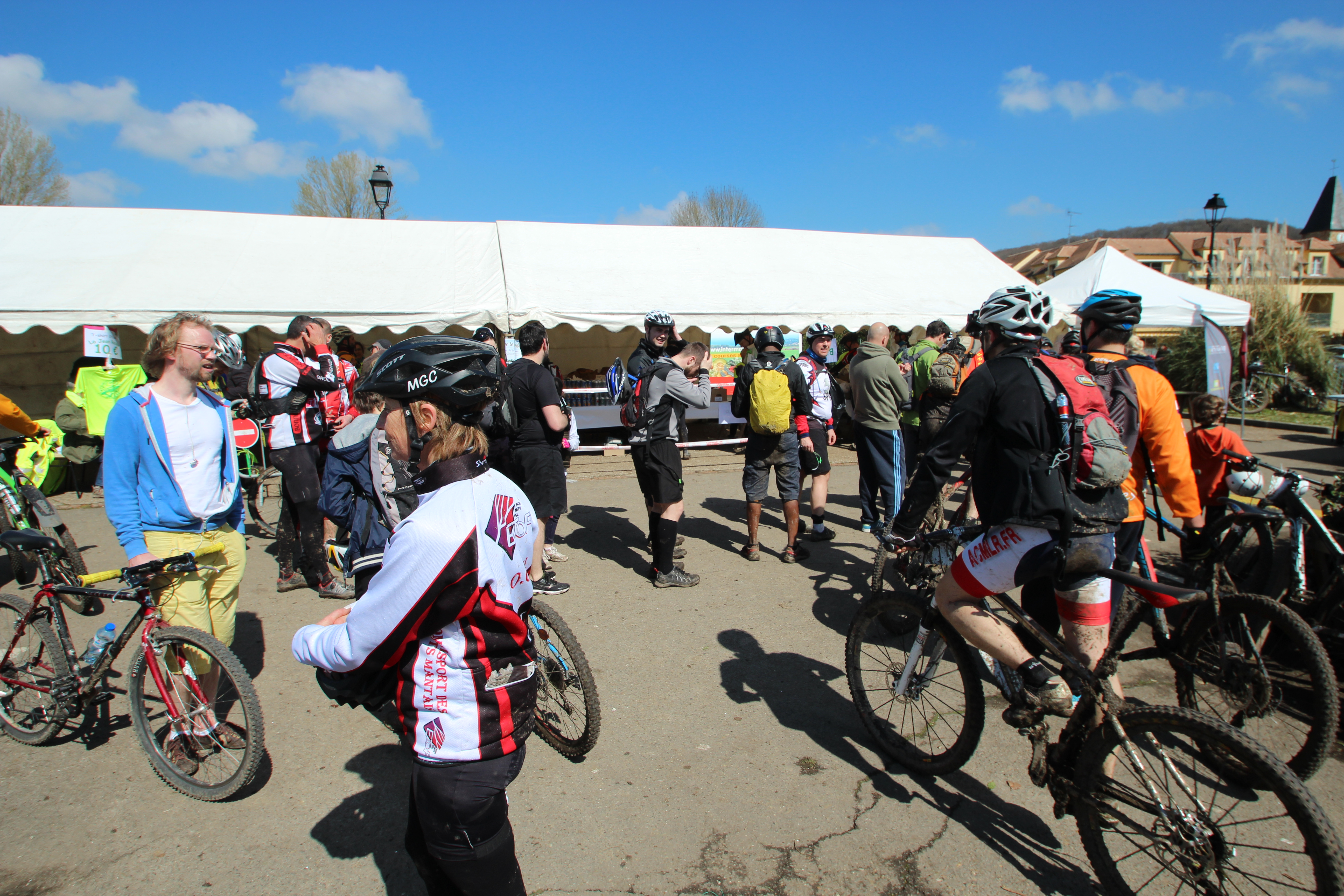 "La Jean Racine 2016" is a sporting event focused on mountain bike which took place on 9 and 10 April 2016 in Saint Rémy lès Chevreuse, France.